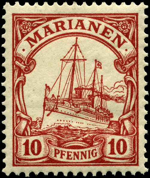 Marshall Islands 10-pfennig stamp of 1901